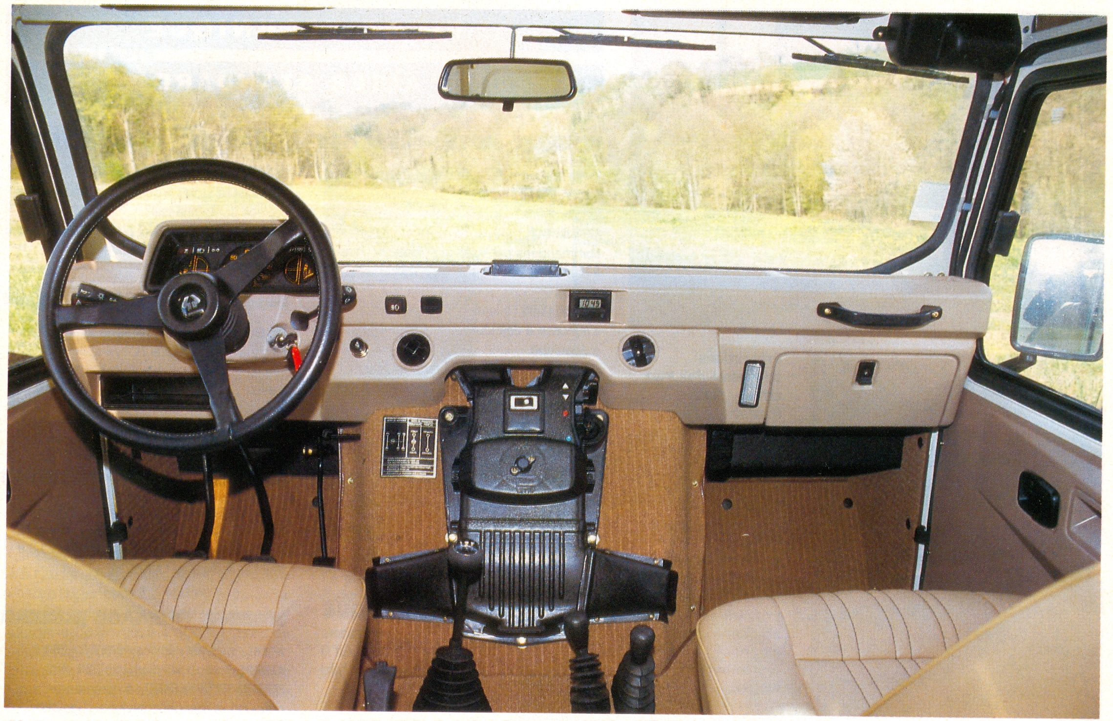 UMM Alter II inetrior